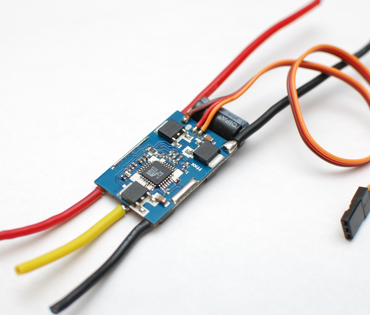 An ESC for hobby use rated at 35 Amps of power.